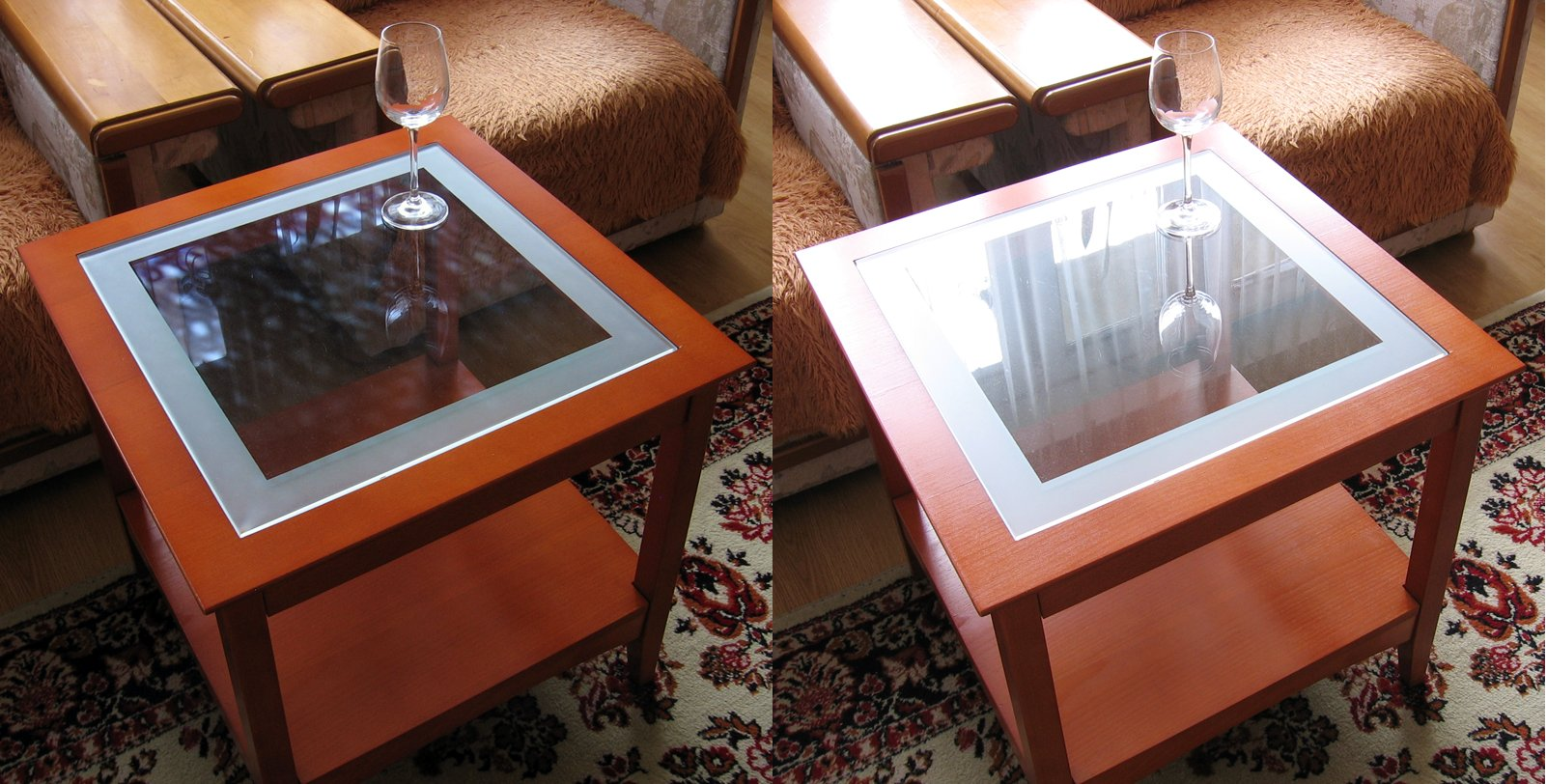 A comparison of images, the one on the left the camera has a circular polarizer on it. The image on the right does not. Camera: Canon A510 + Hoya standard circular polarizer